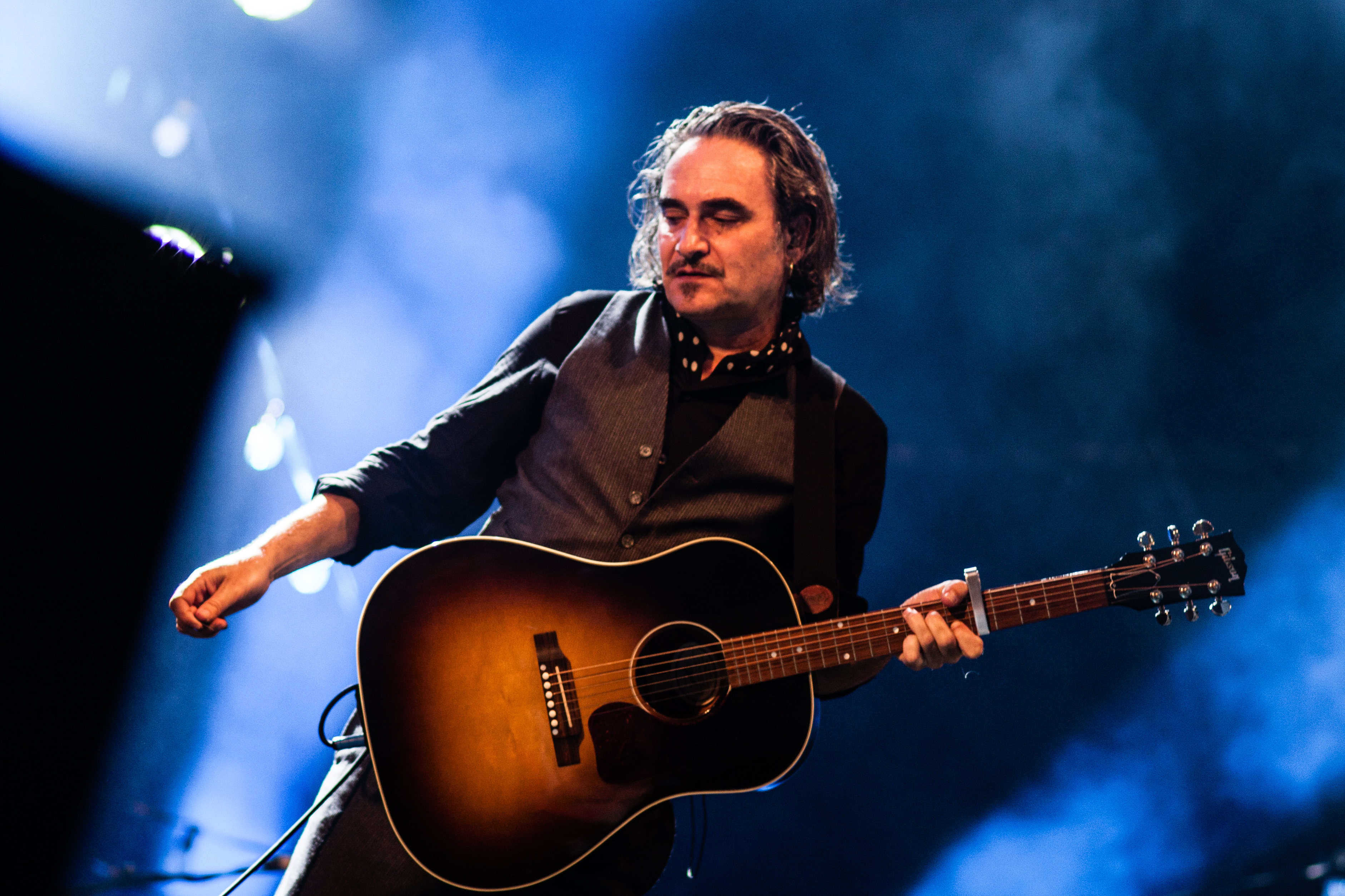 Follow me on facebook Twitter : @didyPhotography All the photographies I've made are now under CC0 (Creative Commons Zero) CC0 - learn more To the extent possible under law, Eddy BERTHIER has waived all copyright and related or neighboring rights to Stephan Eicher @ Bsf 2012. This work is published from: France.